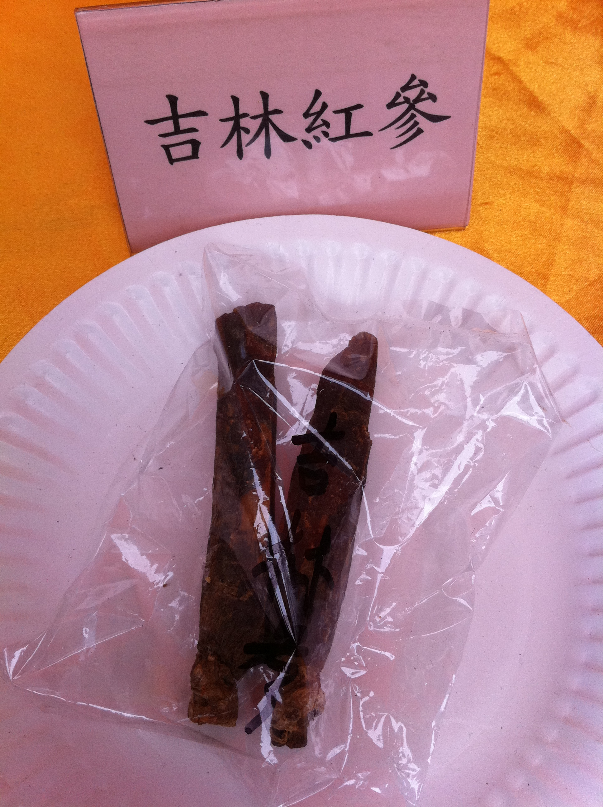 香港中藥聯商會 Medicine exhibits - Ginseng